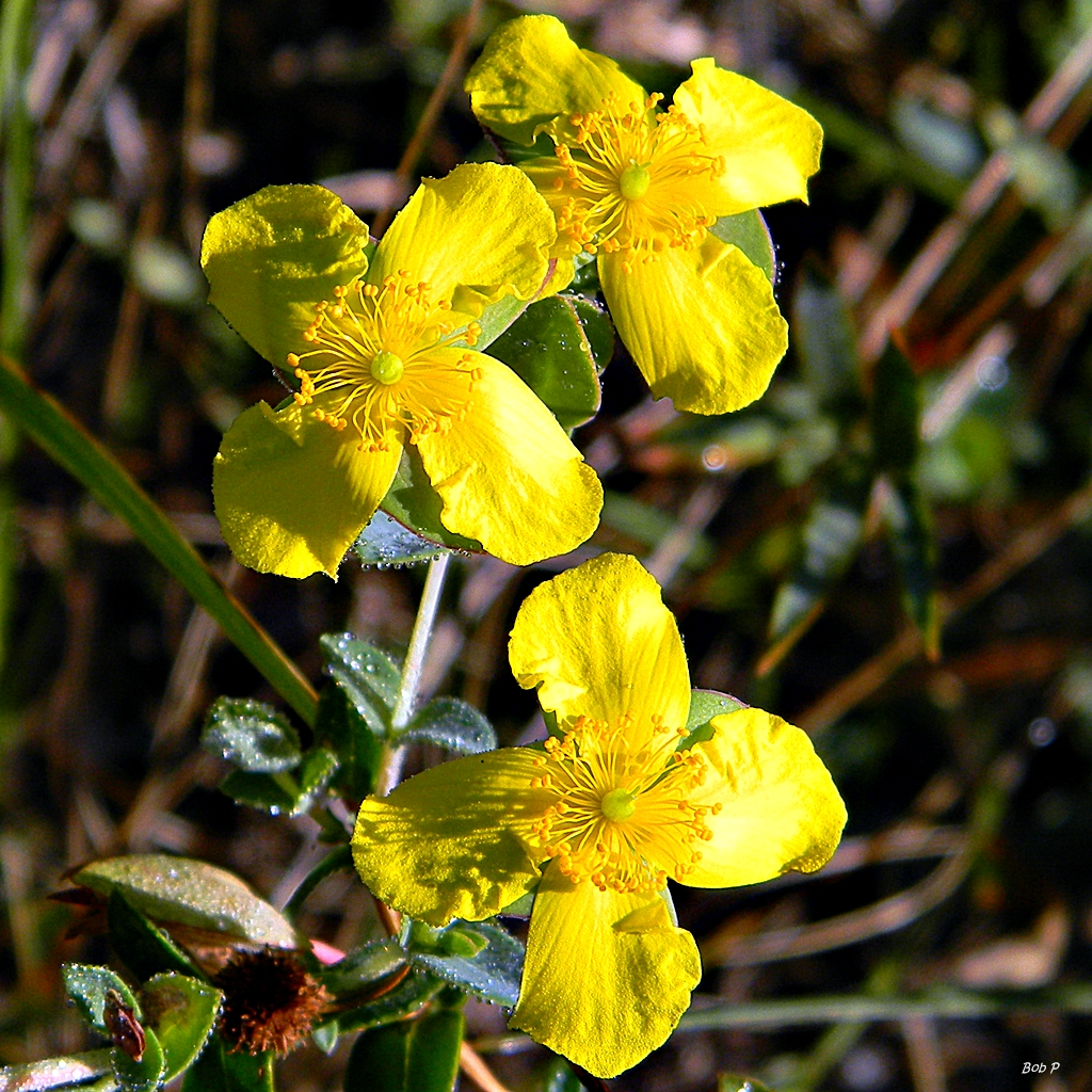 Happy St. John's wort on a very bright, dewy morning at Frenchman's Forest Natural Area.